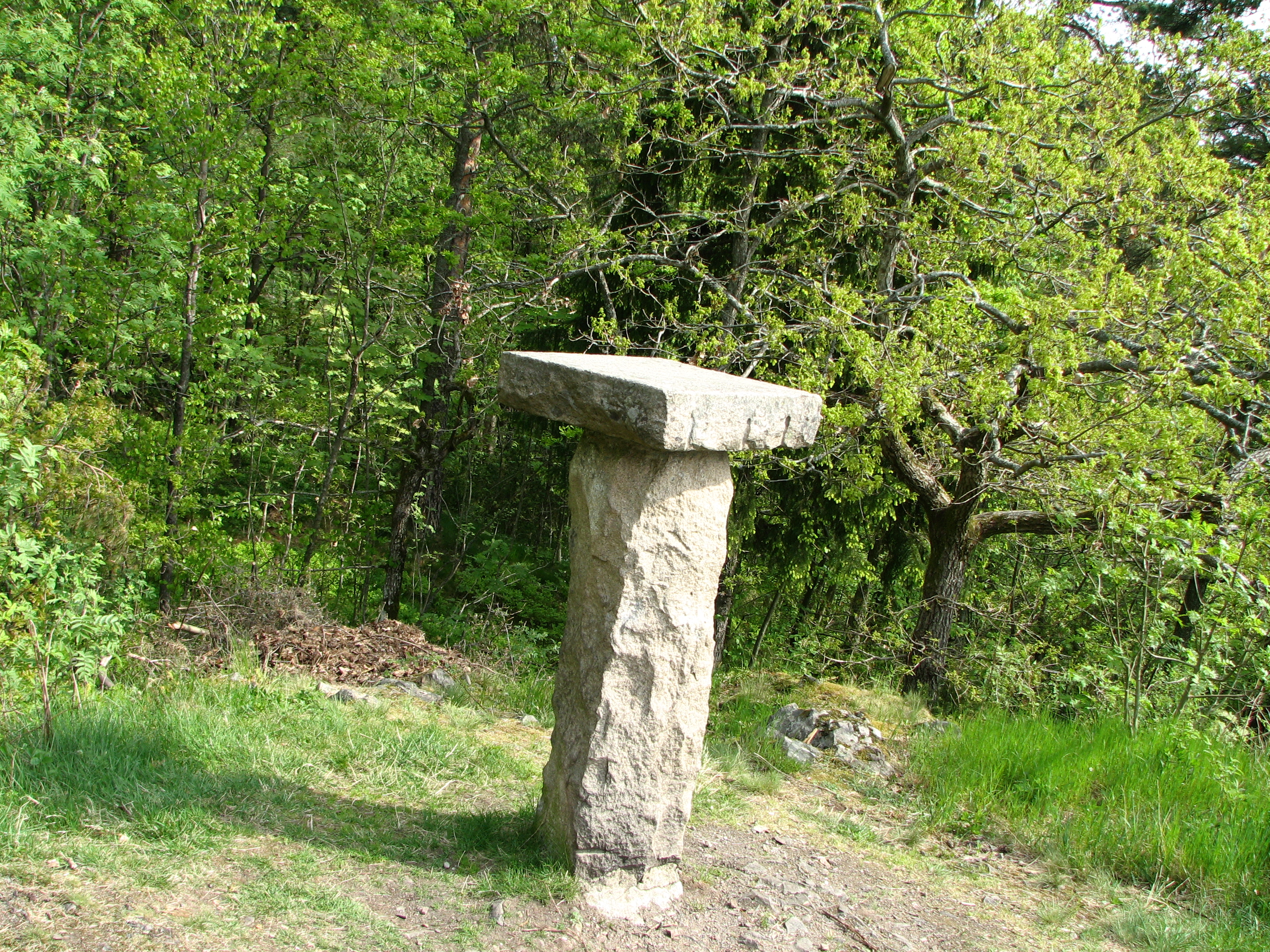 Aiming table at Orkerødbatteriet in Moss, Norway